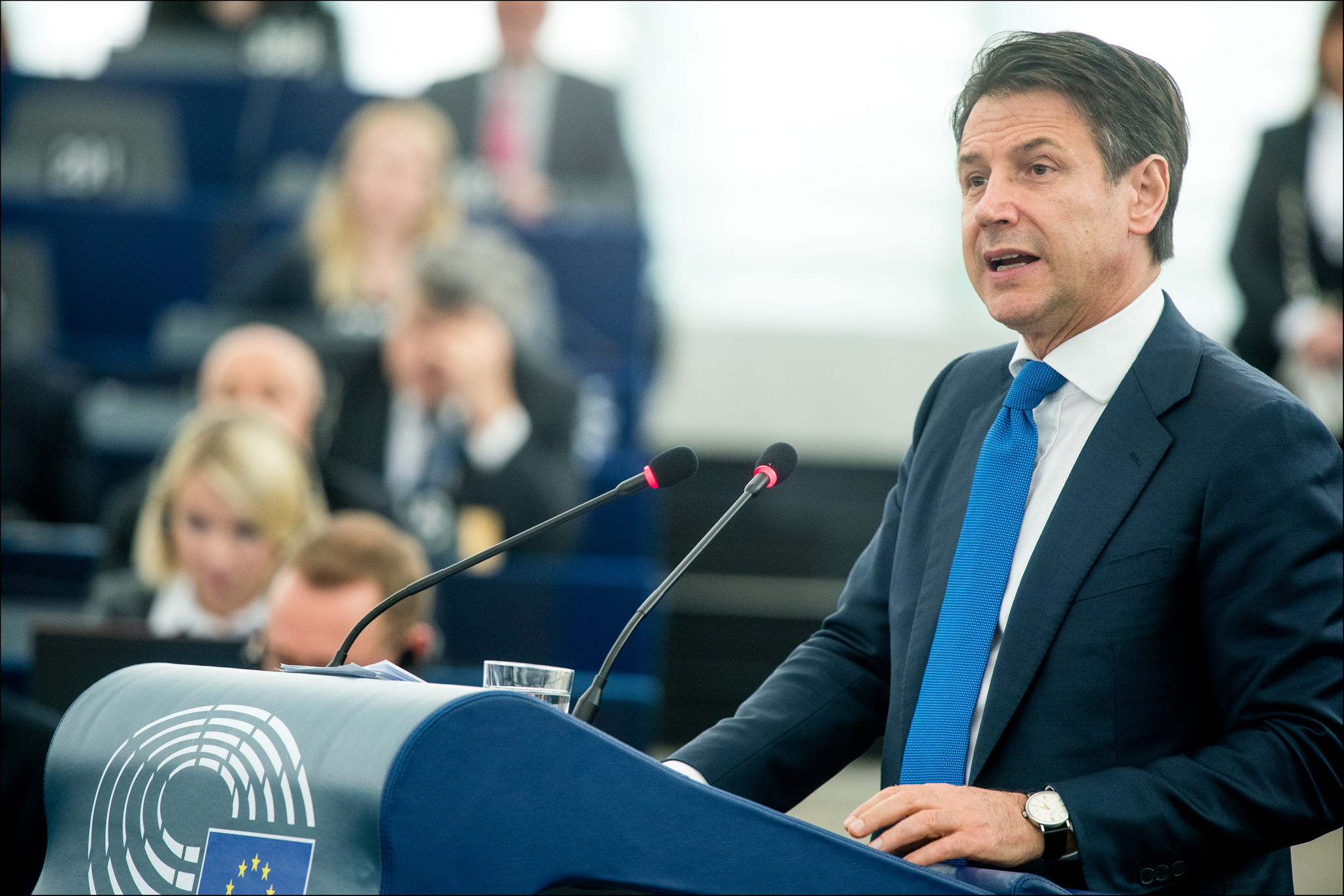 🇮🇹 Prime Minister Giuseppe Conte at the European Parliament presented today his vision on the #FutureofEurope in a debate with MEPs. This photo is free to use under Creative Commons license CC-BY-4.0 and must be credited: "CC-BY-4.0: © European Union 20XY – Source: EP". No model release form if applicable. For bigger HR files please contact: webcom-flickr(AT)